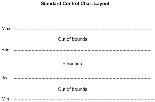 Example of a Control Chart structure.